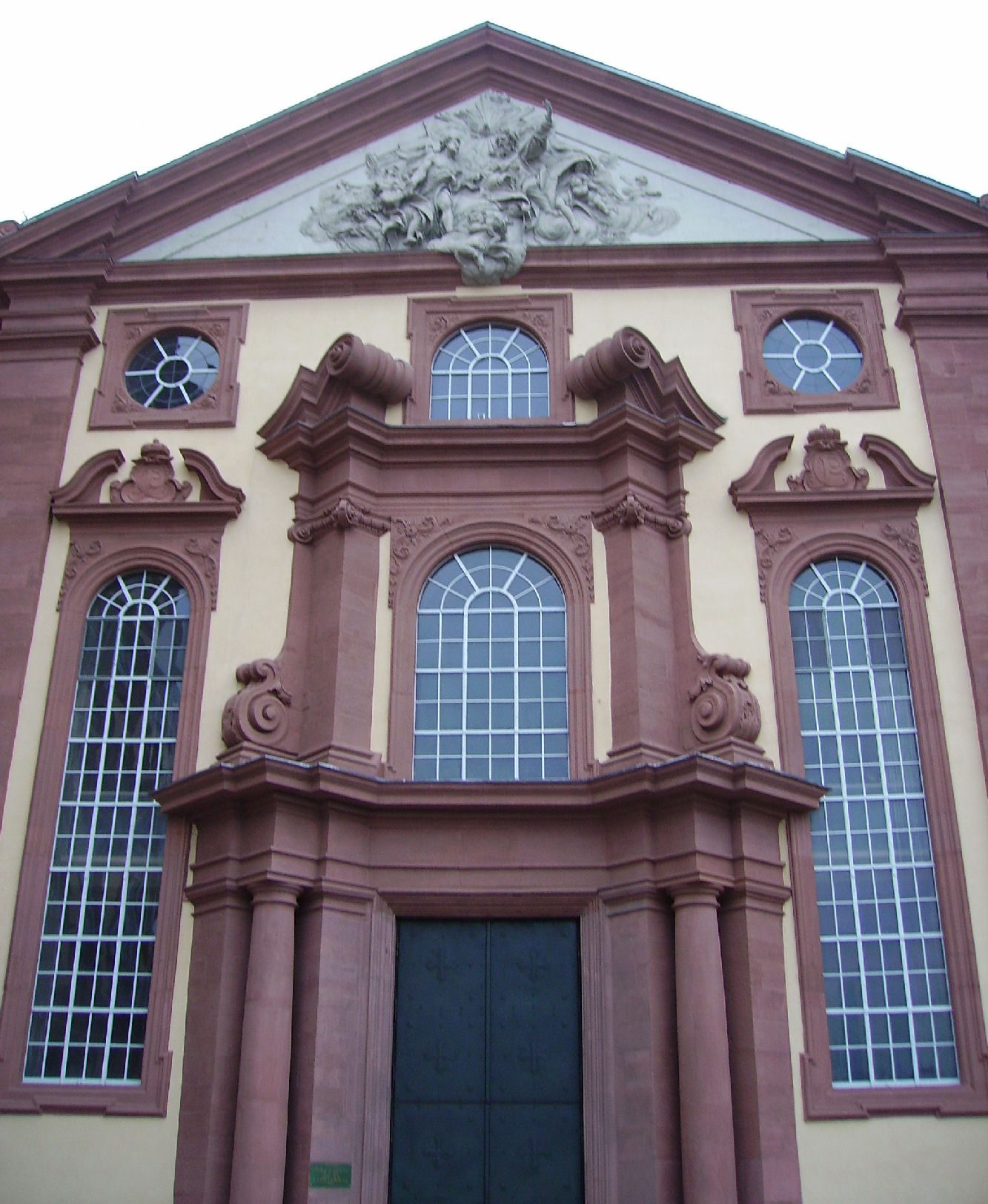 castle of Mannheim, Germany